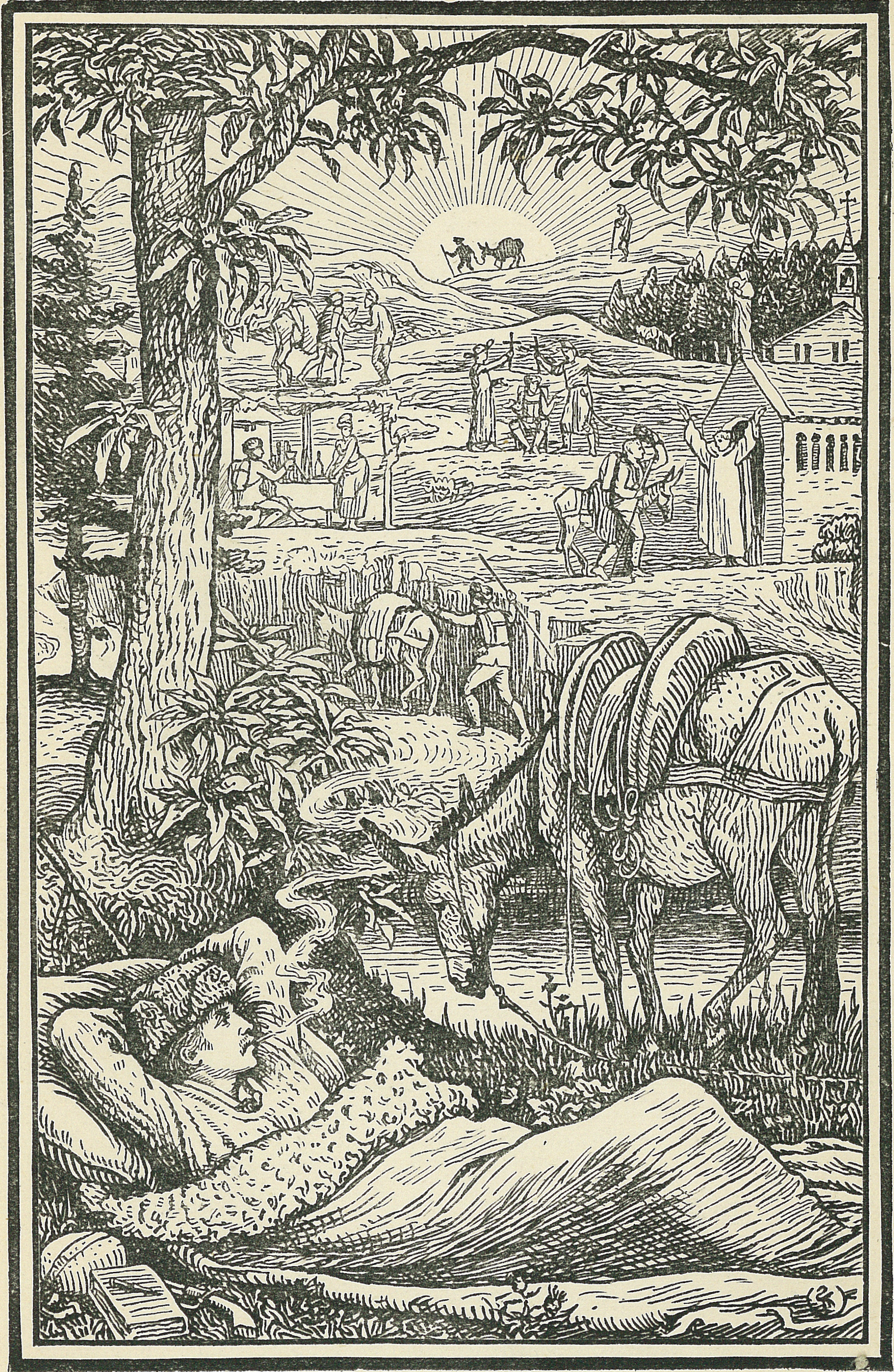 Frontispiece of Travels with a Donkey in the Cévennes